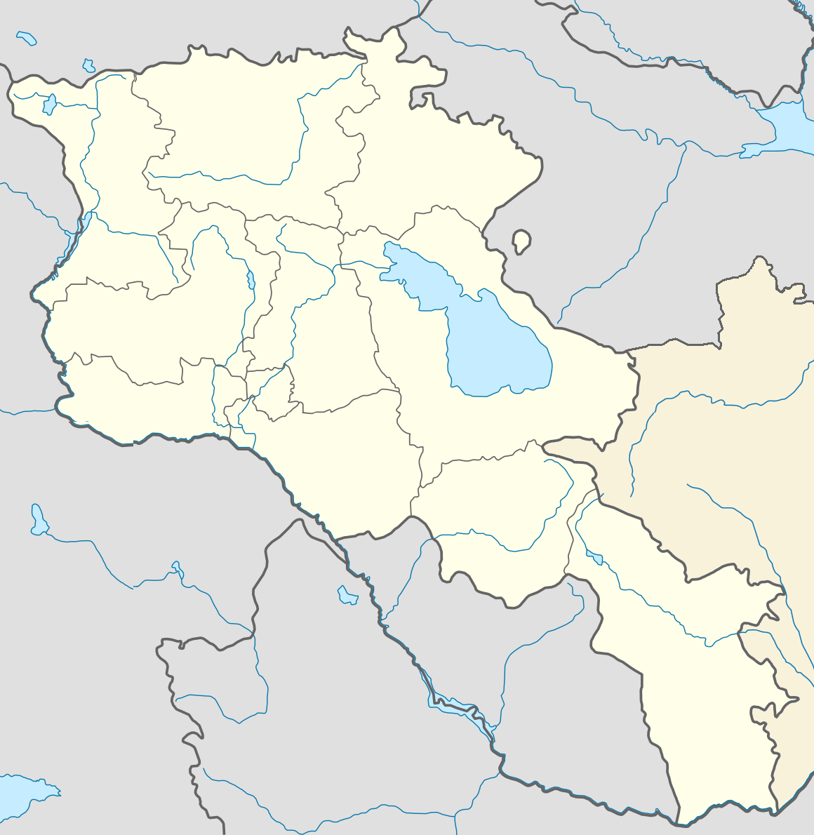 Location map of Armenia with N K R